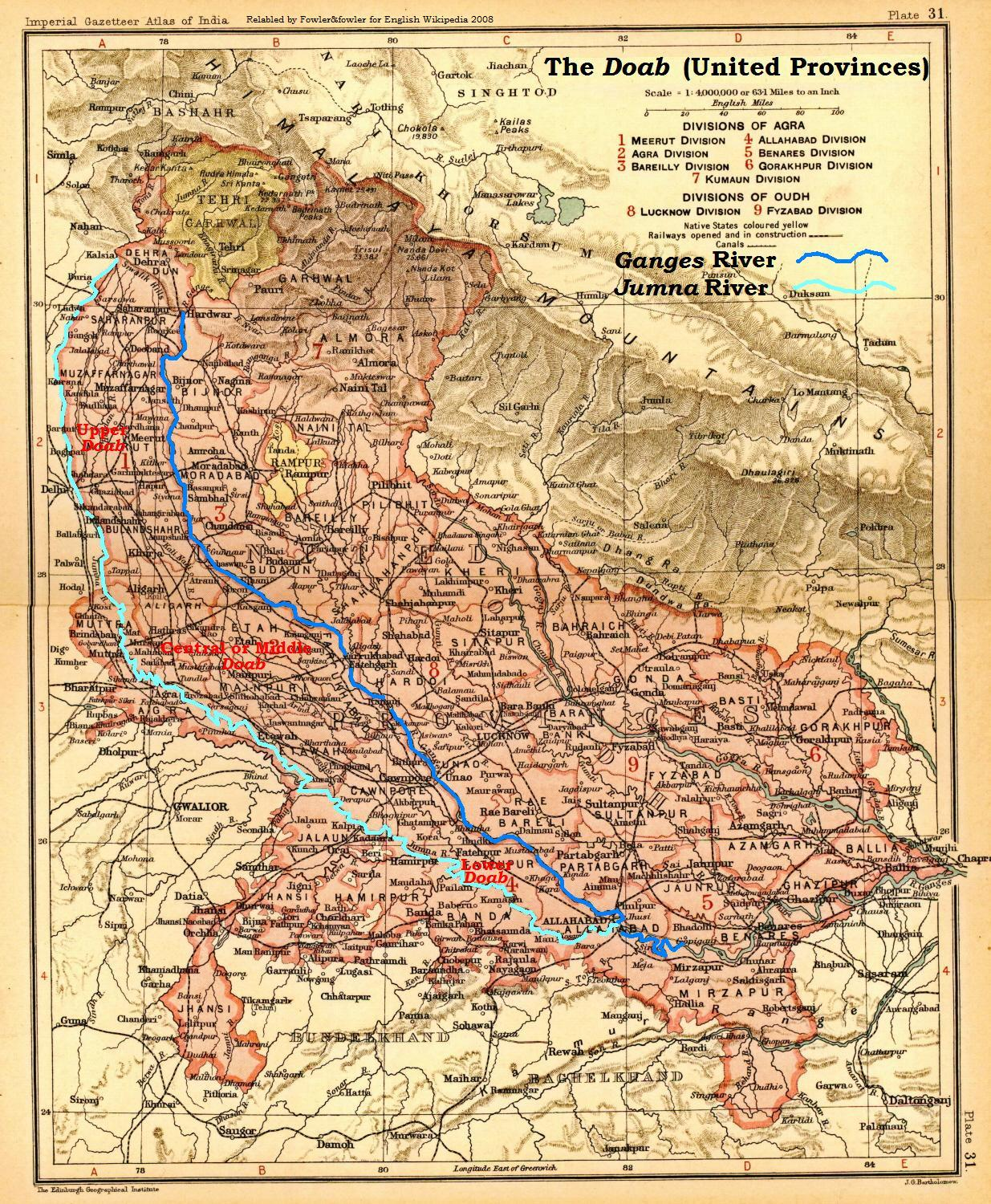 Map from personal copy of Imperial Gazetteer of India, Volume 25 (Atlas) Oxford University Press, 1908. Re-labeled (to show the Doab in the United Provinces, cropped, and resized by Fowler&fowler«Talk» 04:39, 6 June 2008 (UTC)